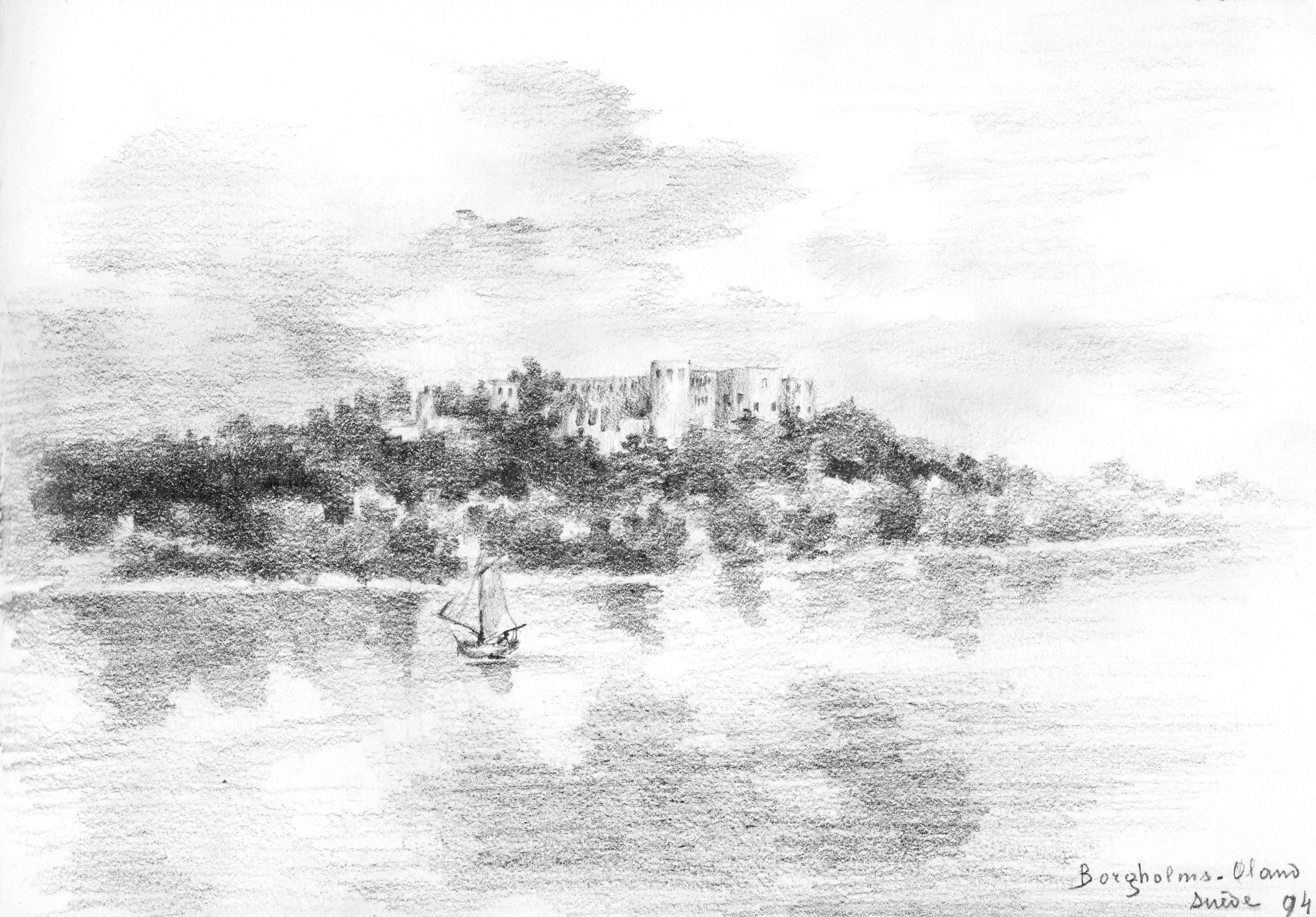 Borgholm castle, ruin, drawing from 1894 by Jeanne Bricou, married Jeanne von Vietinghoff